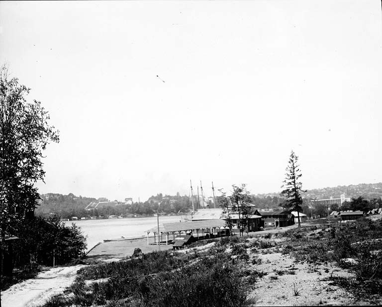 From John Cobb field notebook: Lake Union frontage of the Univ. of Wash. campus. 1919 Subjects (LCSH): University of Washington; Union, Lake (Wash.)